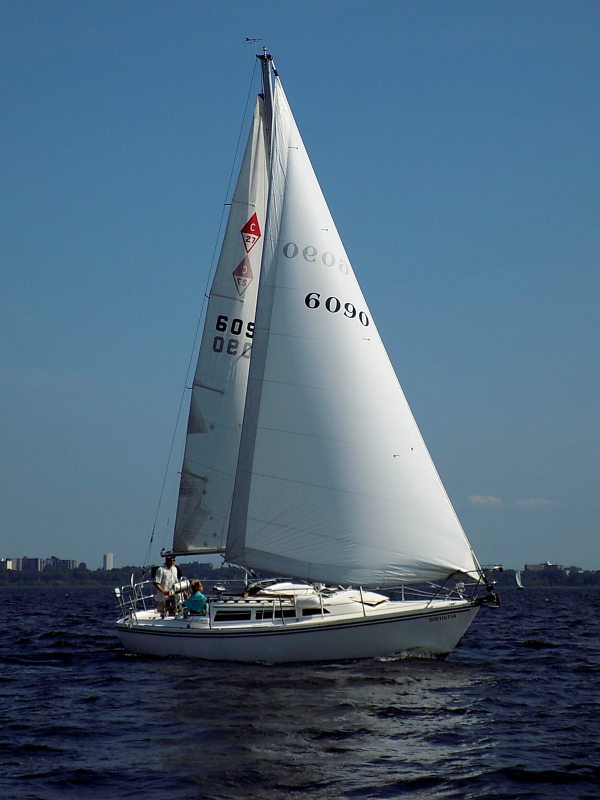 A Catalina 27 sailboat.